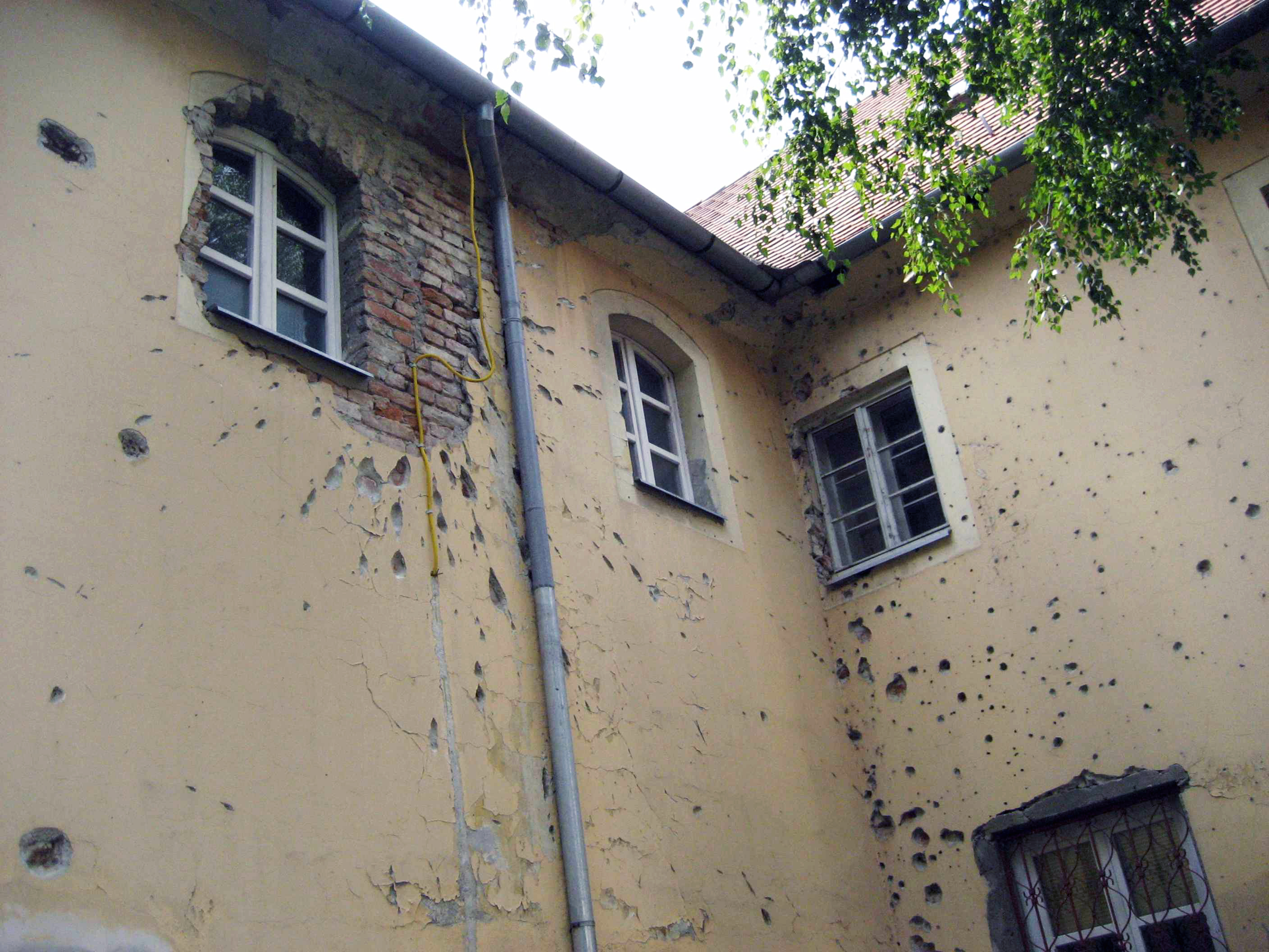 Serbian shellings at Osijek